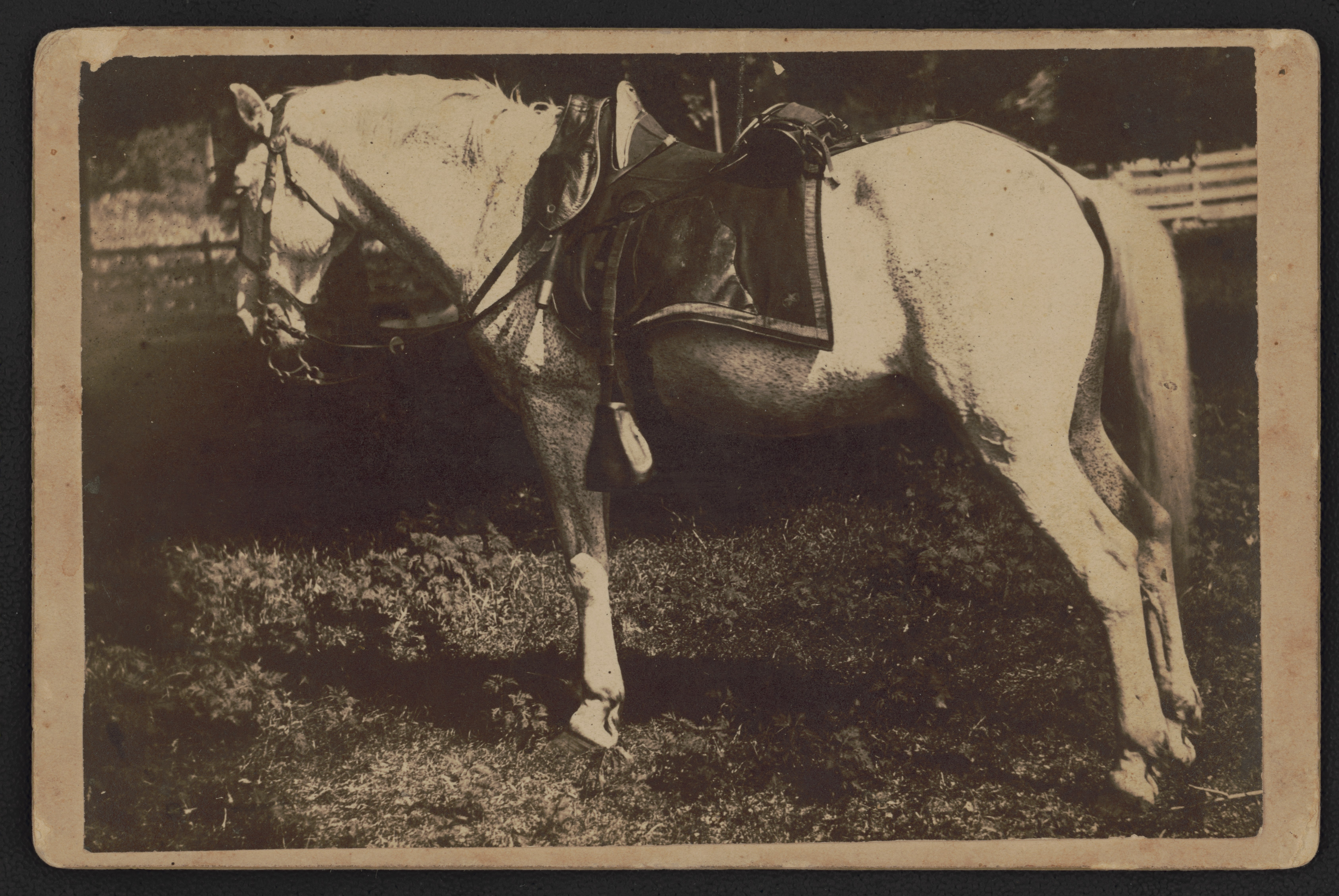 Title: "Colonel," Union horse who survived 18 battles Abstract/medium: 1 photograph : albumen print on card mount ; mount 11 x 17 cm (cabinet card format)